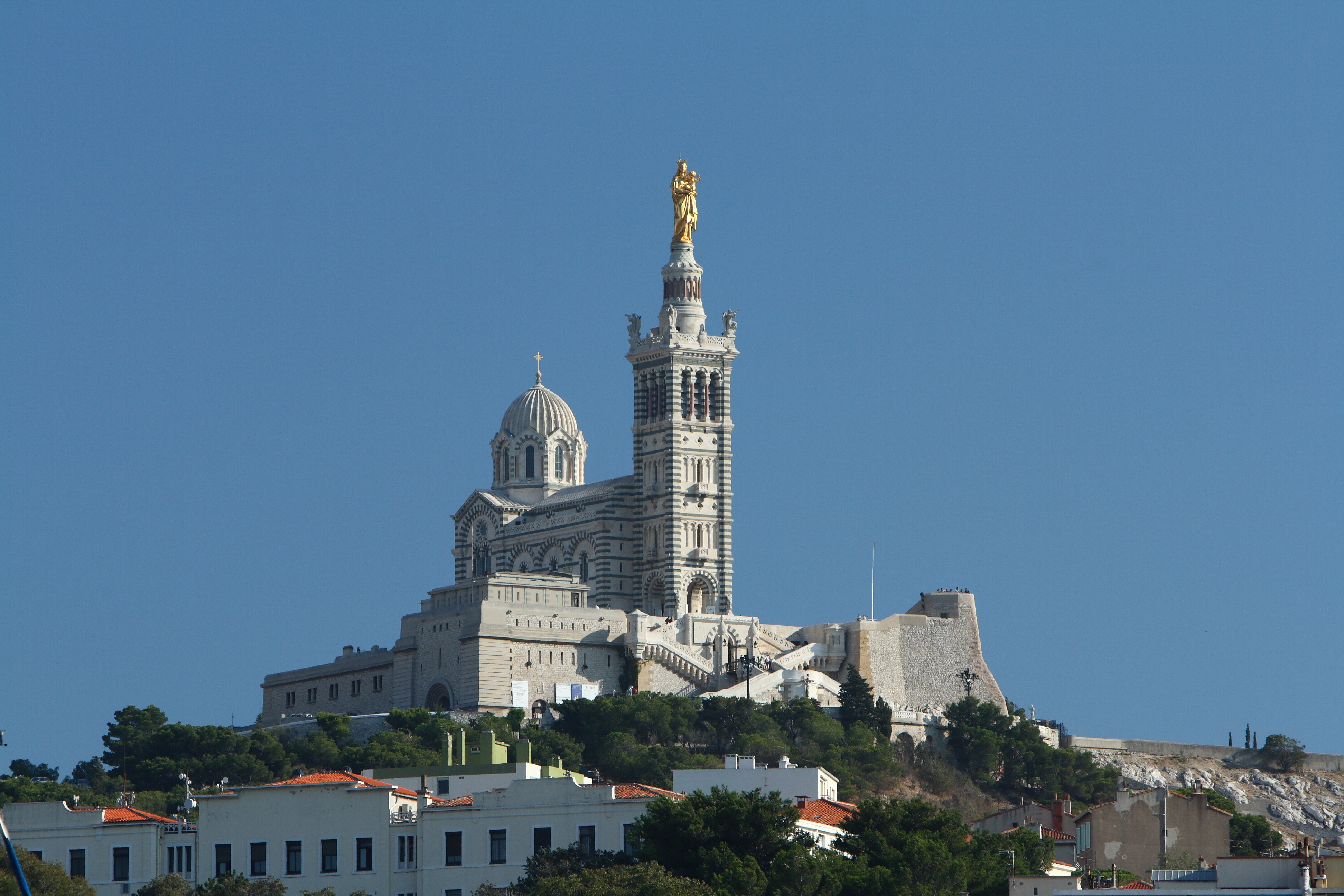 Notre-Dame de la Garde basilica, in Marseille, Bouches-du-Rhône, France, seen from the Vieux port (old harbour)